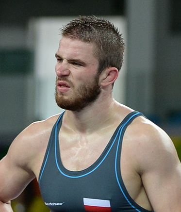 Wrestling at the 2016 Summer Olympics, Sharifov vs Baranowski